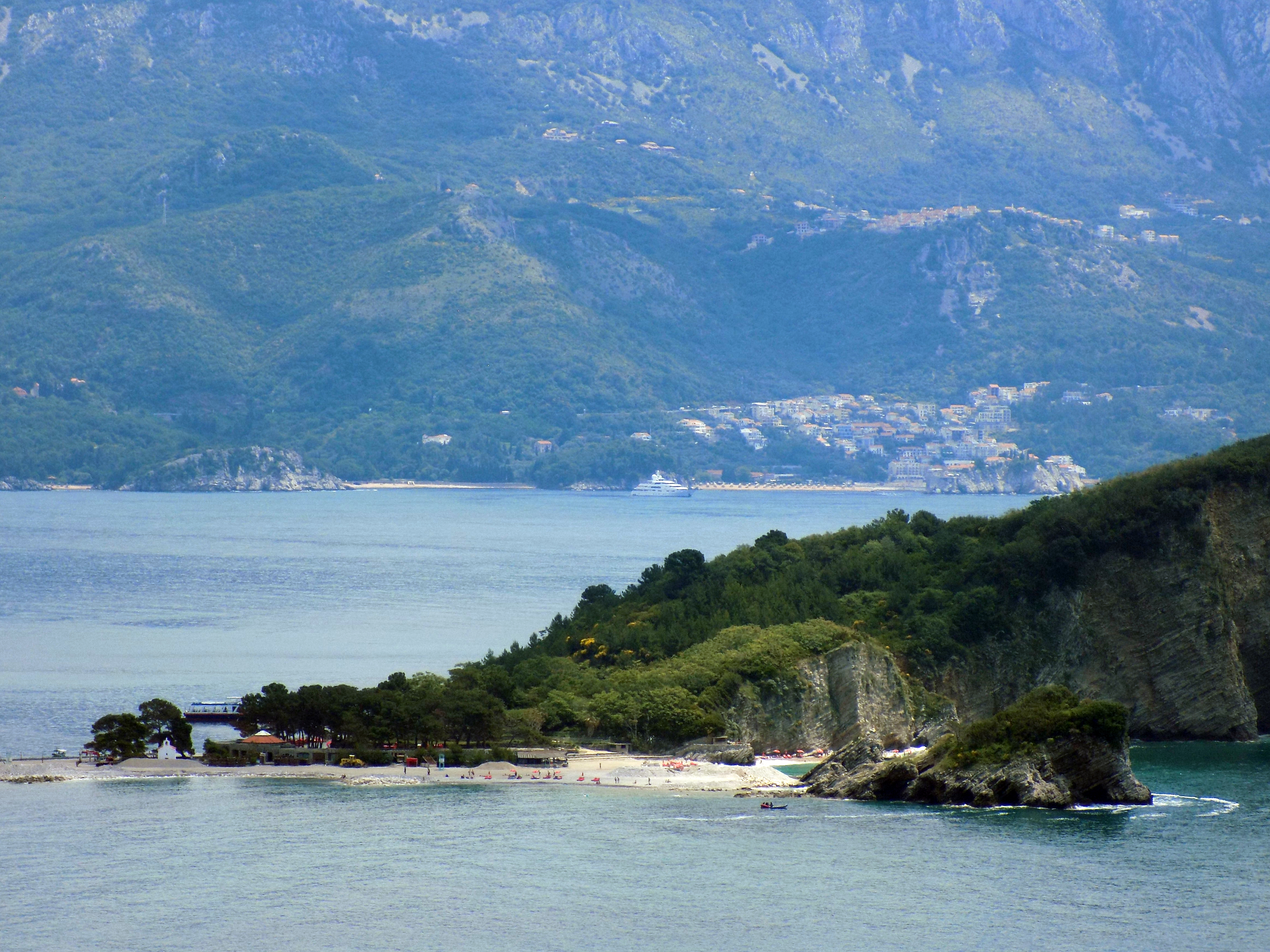 Chapel and beach on Sveti Nikola Island